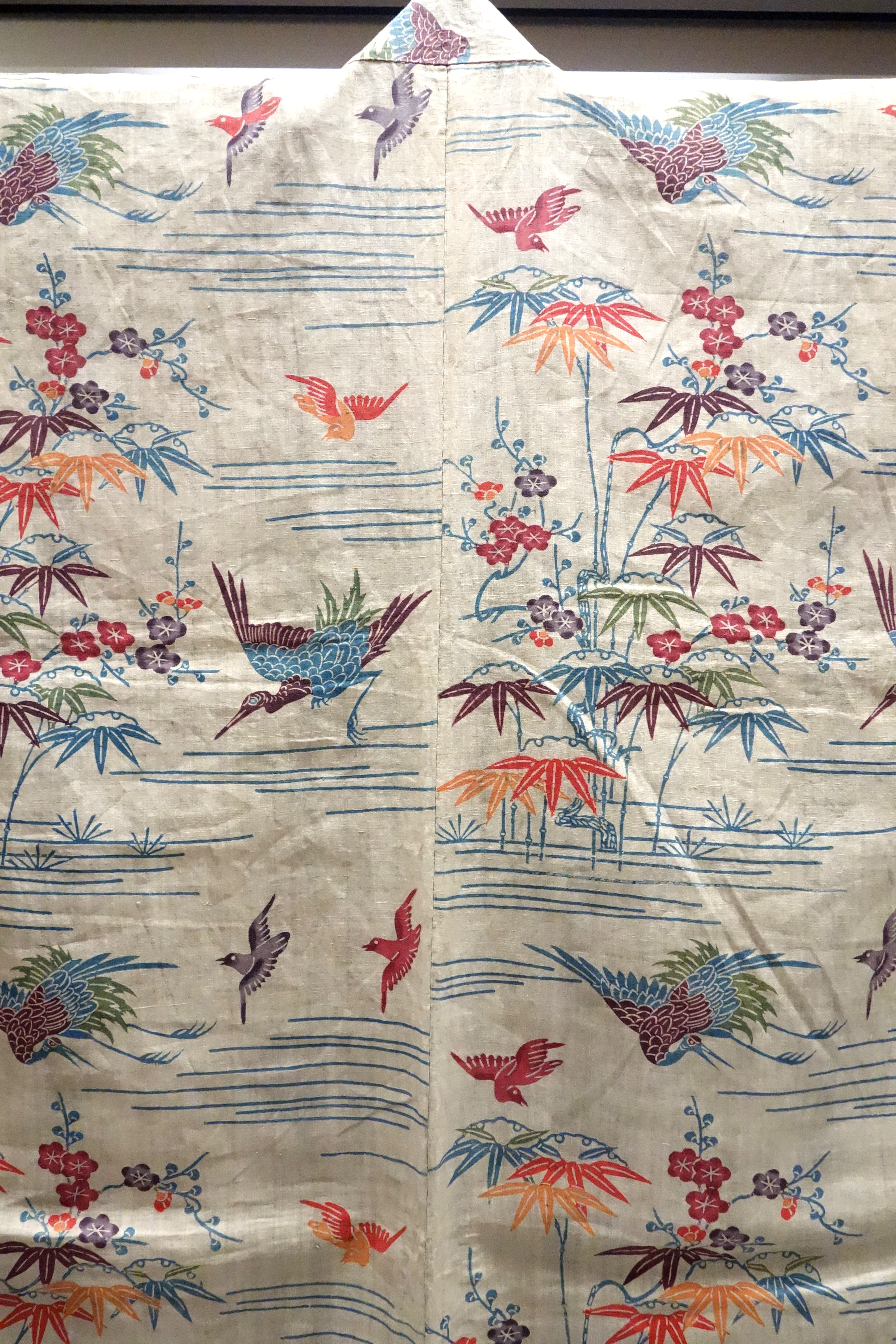 Exhibit in the Tokyo National Museum, Tokyo, Japan. This artwork is old enough so that it is in the public domain.